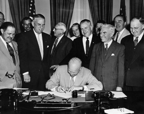 Eisenhower signing of HR7786, June 1, 1954, this ceremony changed Armistice Day to Veterans Day. Alvin J. King, Wayne Richards, Arthur J. Connell, John T. Nation, Edward Rees, Richard L. Trombla, Howard W. Watts.